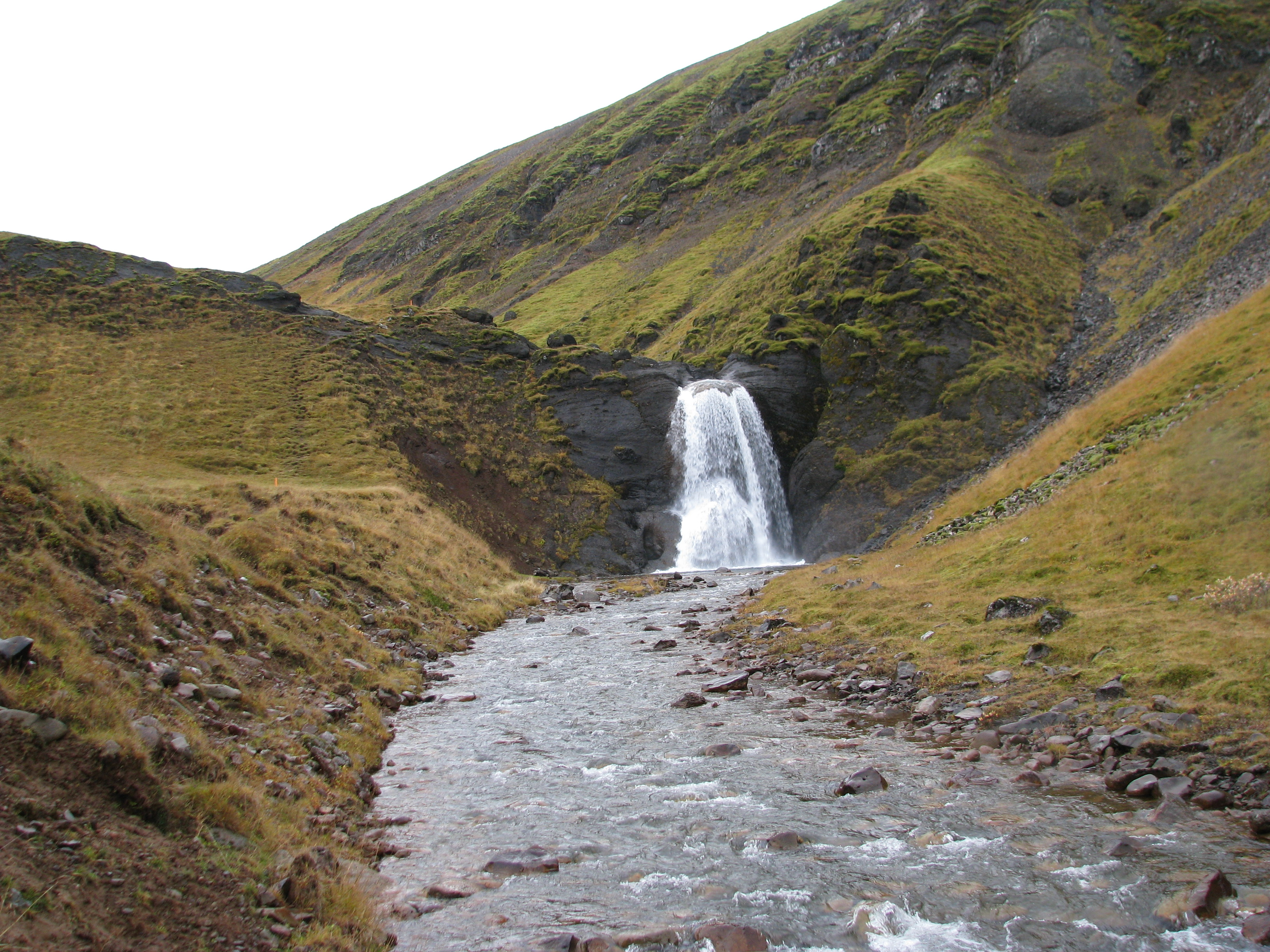 The Helgufoss, a waterfall in south Iceland, not far from its capital Reykjavik